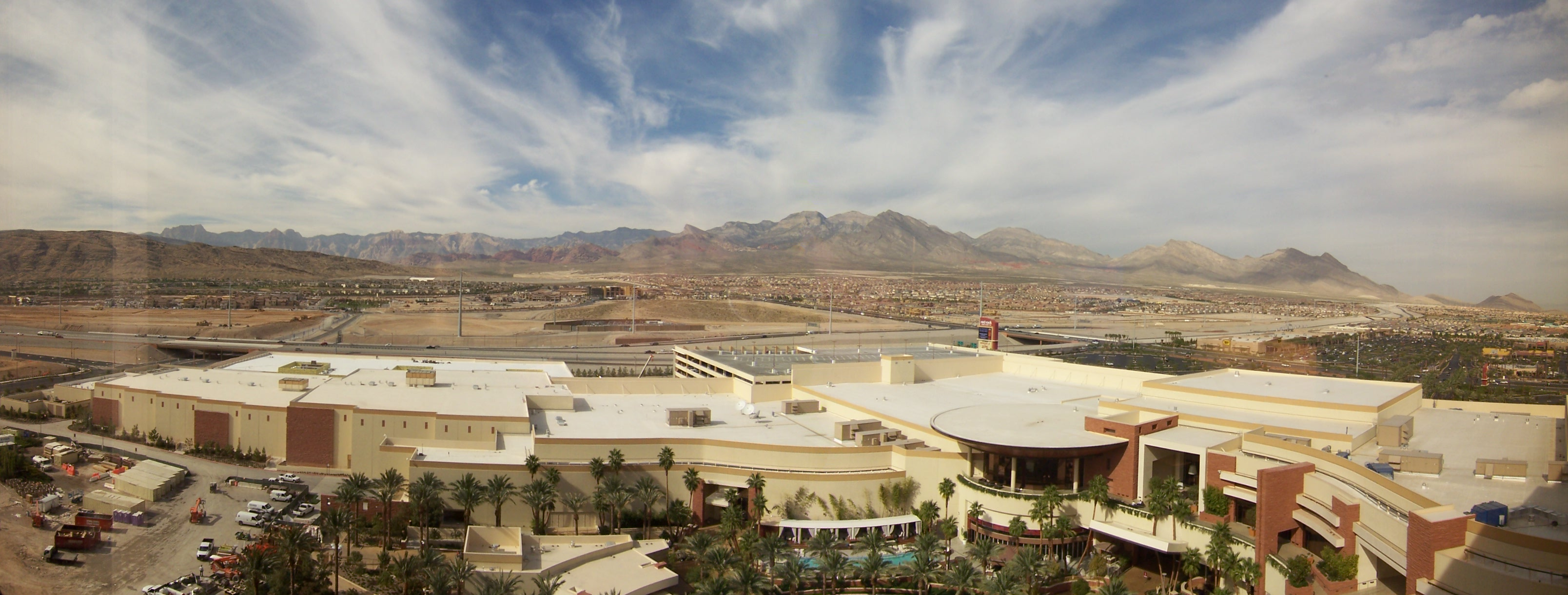 A wide shot of the facilities at the Red Rock resort in Las Vegas.